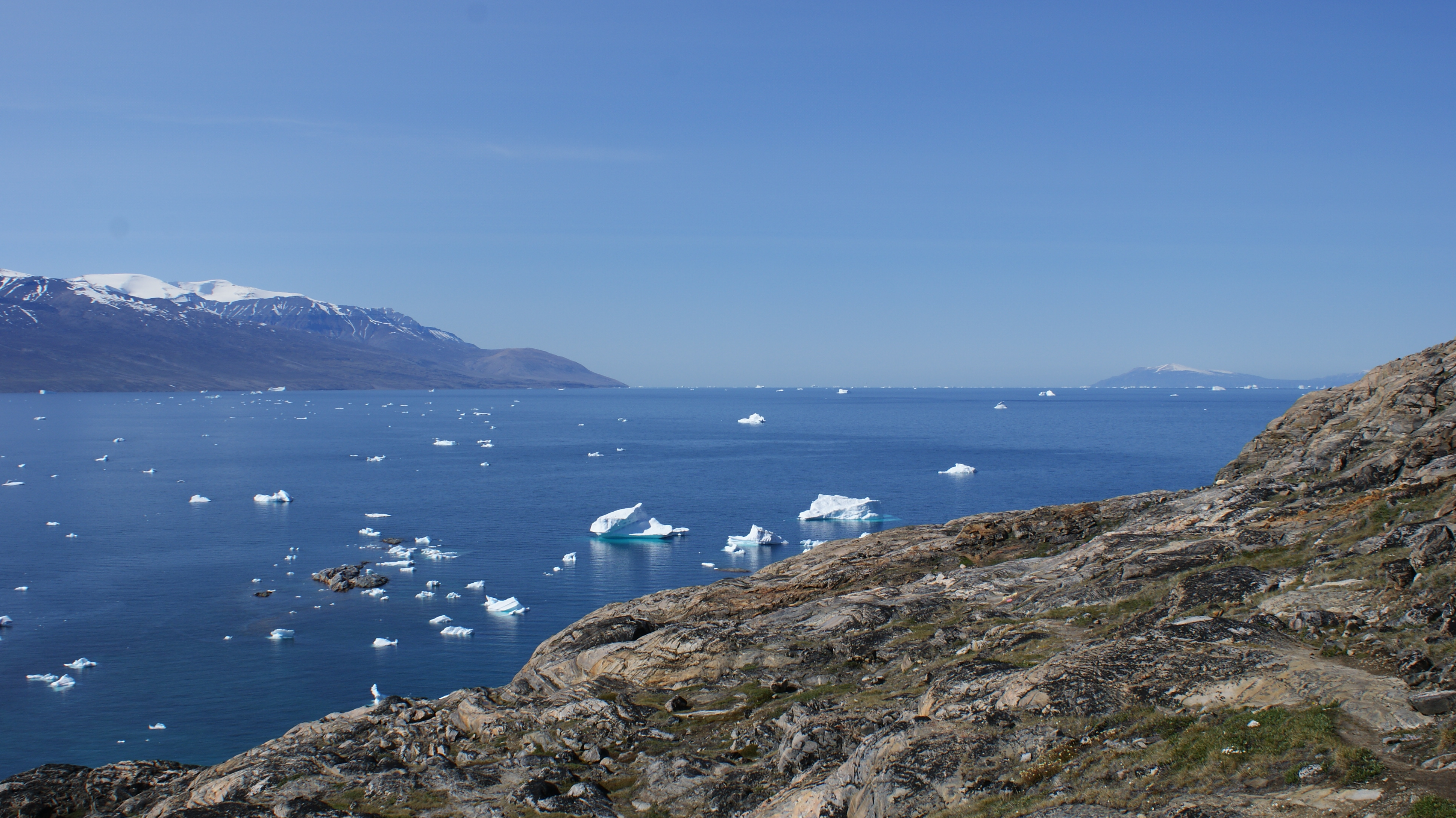 Qasigissat Bay, Uummannaq Island, Greenland. Northwestern Nuussuaq Peninsula, the main arm of Uummannaq Fjord, and faraway Illorsuit Island are visible as well.